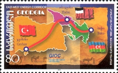 Map with silk way from Tutkey to Georgia and Azerbaijan.